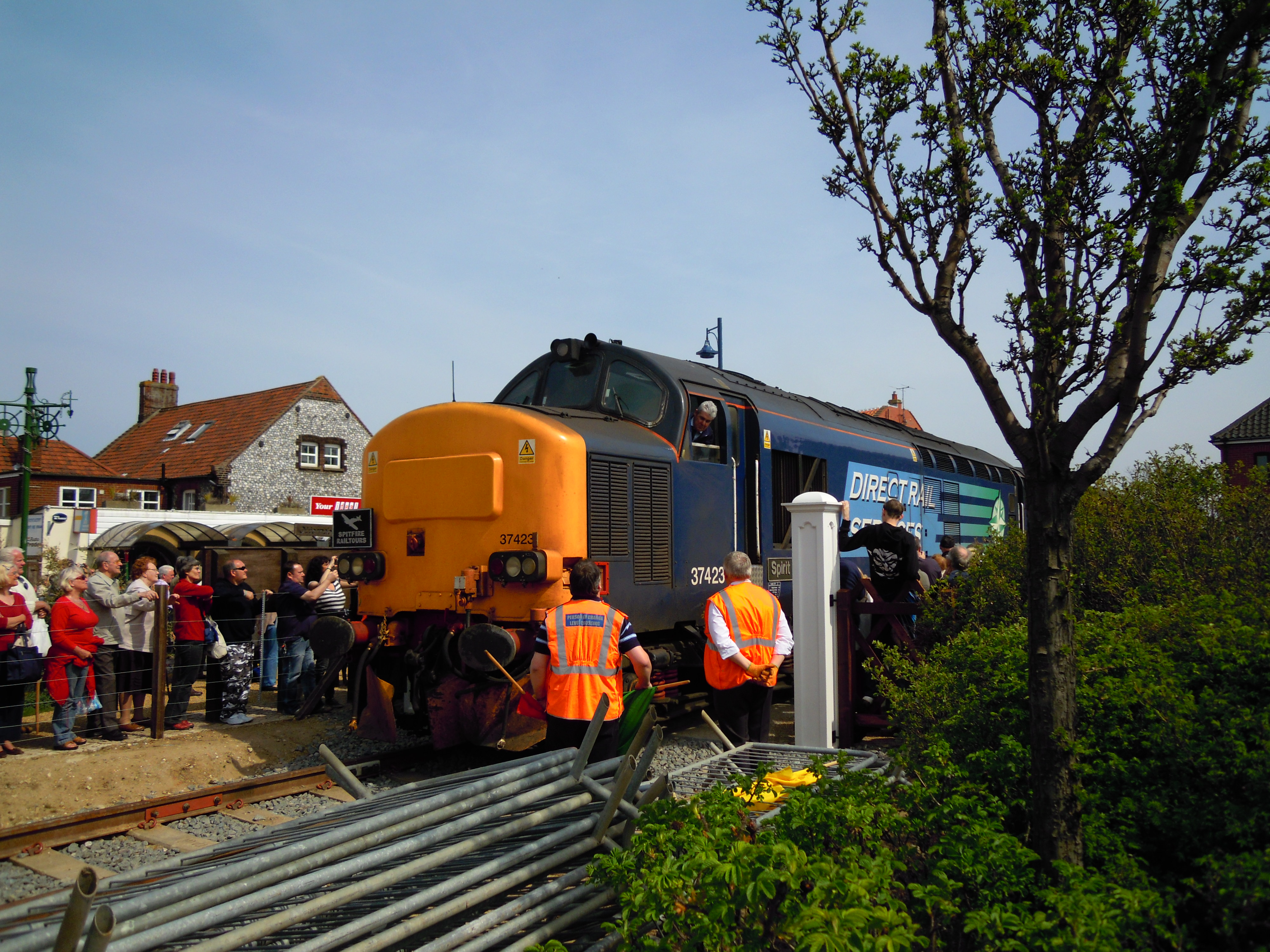 British Rail class 37 (No:37423) was the second train to cross the new re-instated level crossing that links the North Norfolk Railway with the rail network.